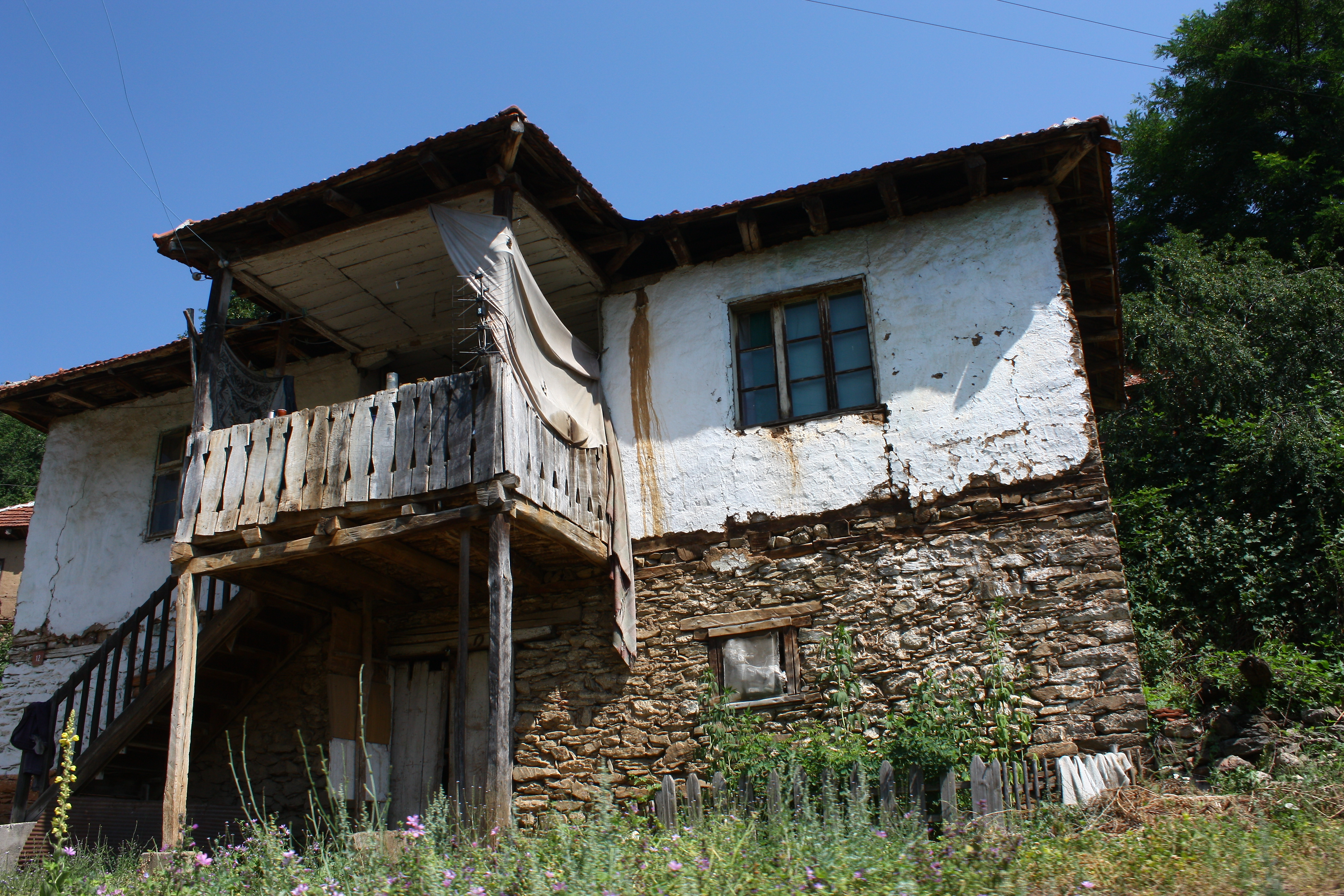 Novo Selo between Gostivar and Mavrovo, Macedonia